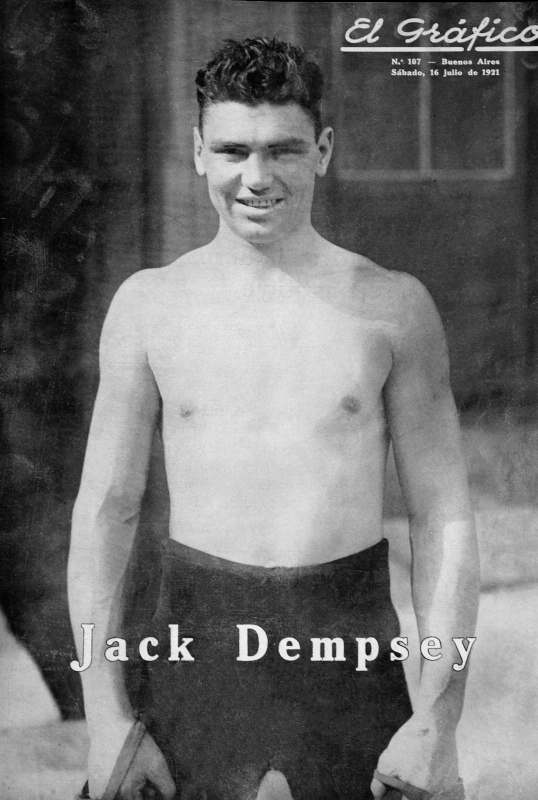 Boxer Jack Dempsey on the cover of El Grafico sports magazine of Argentina, in 1921.